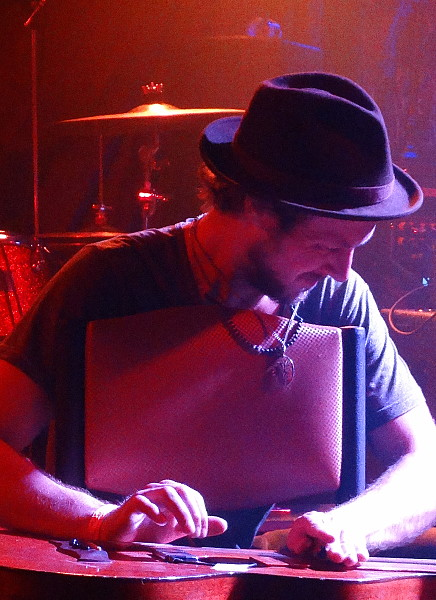 Close up of members of Current Swell playing at The Saint in Asbury Park, NJ. Photo by LHCollins. 04062018.